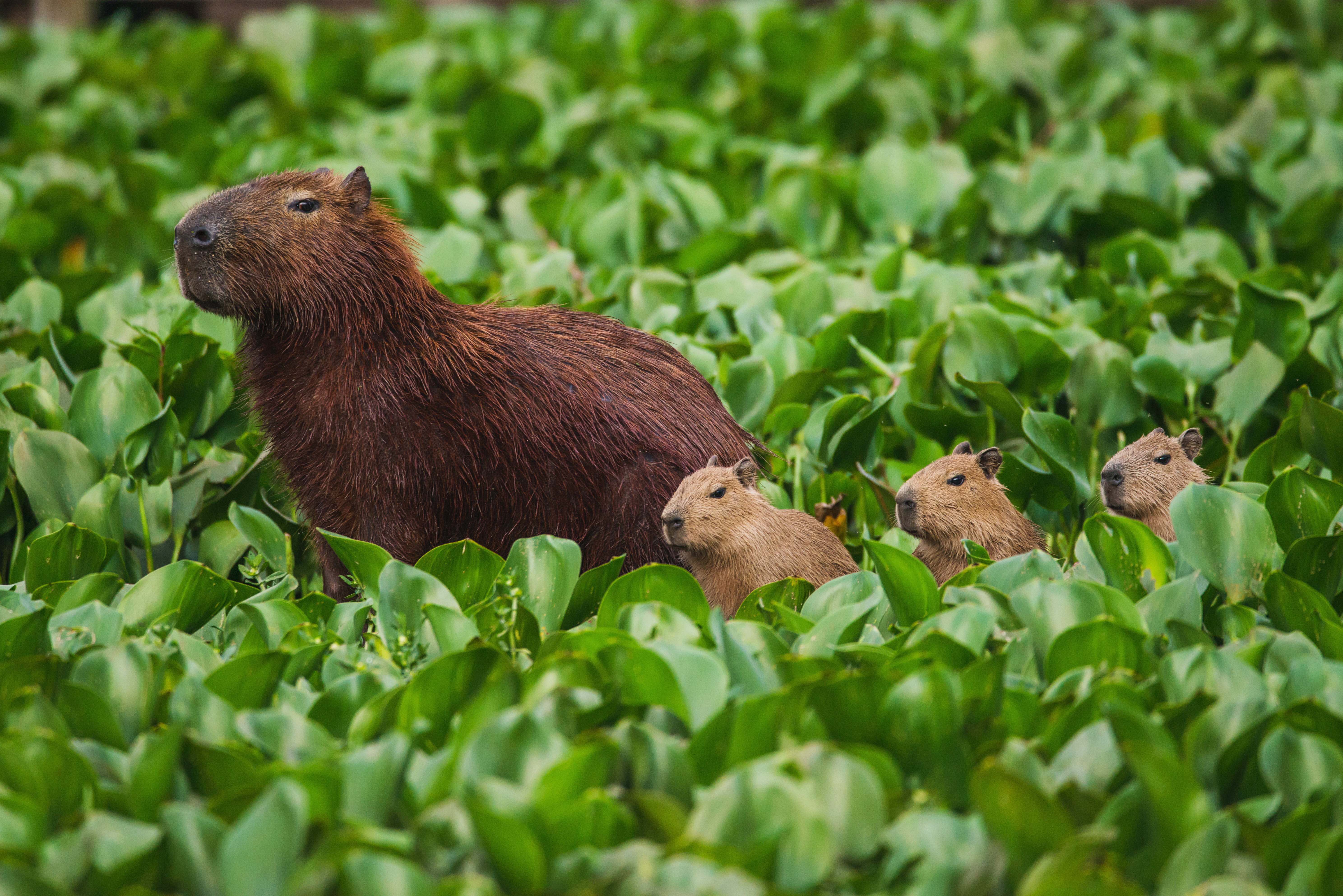 Capybaras (Hydrochoerus hydrochaeris) in the protected area of the Tietê River in São Paulo state, Brazil.